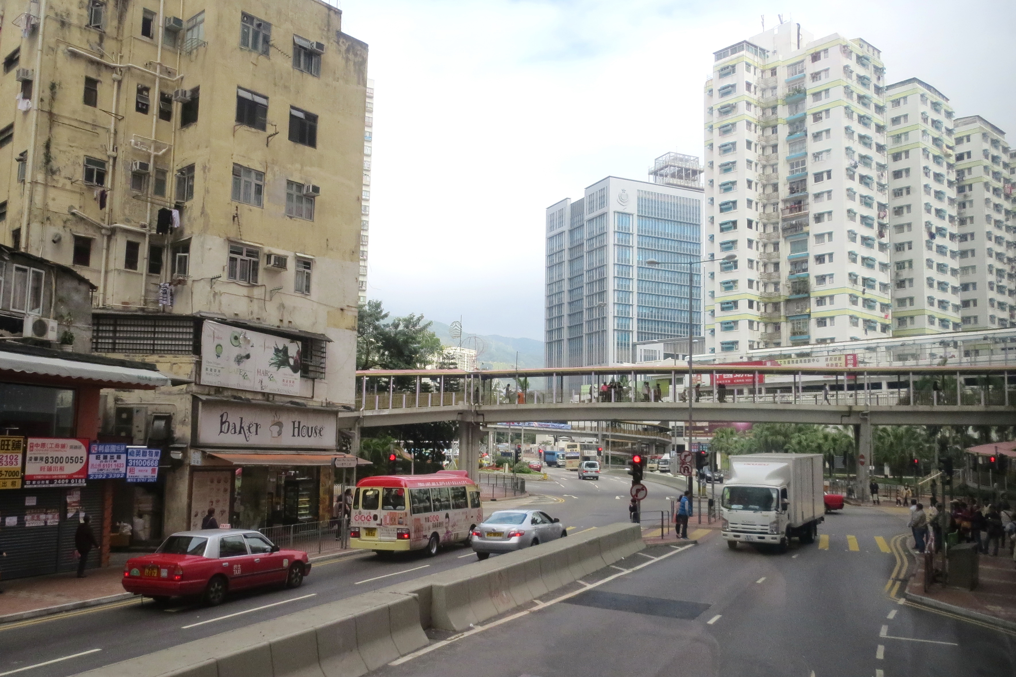 Kwan Mun Hau Street, Tsuen Wan, New Territories, Hong Kong.